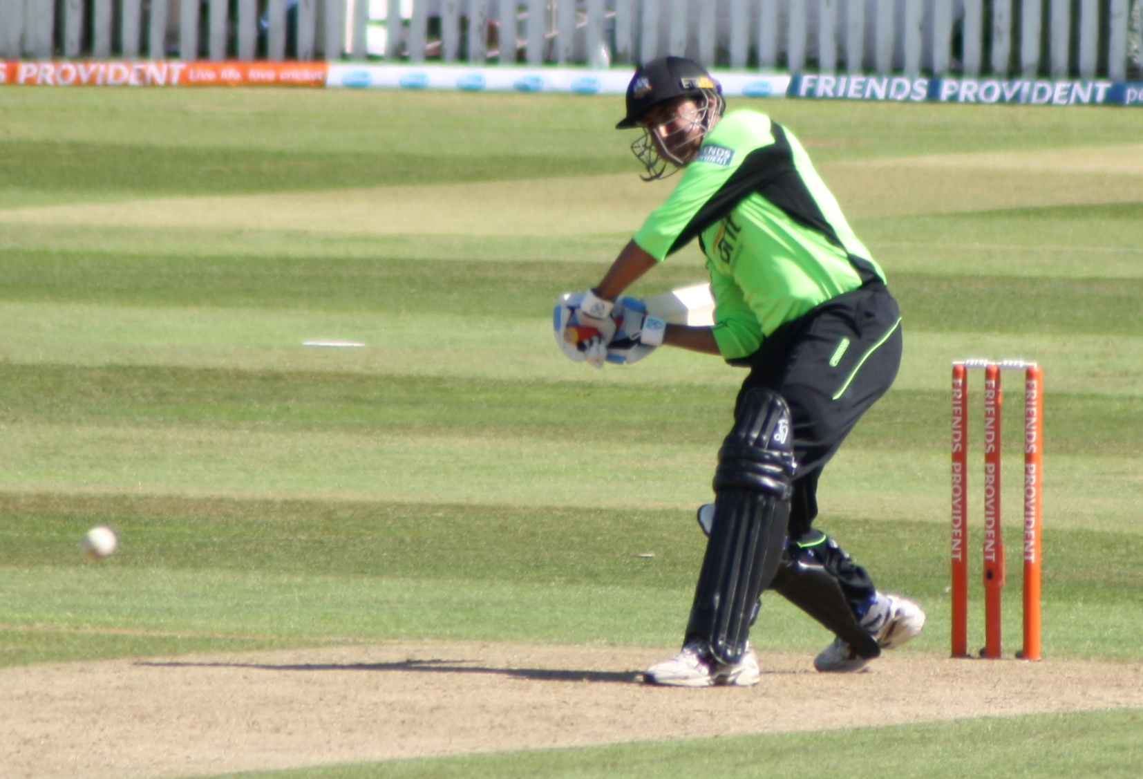 Younis Khan batting for Surrey against Somerset in the Friends Provident t20 at the County Ground, Taunton.